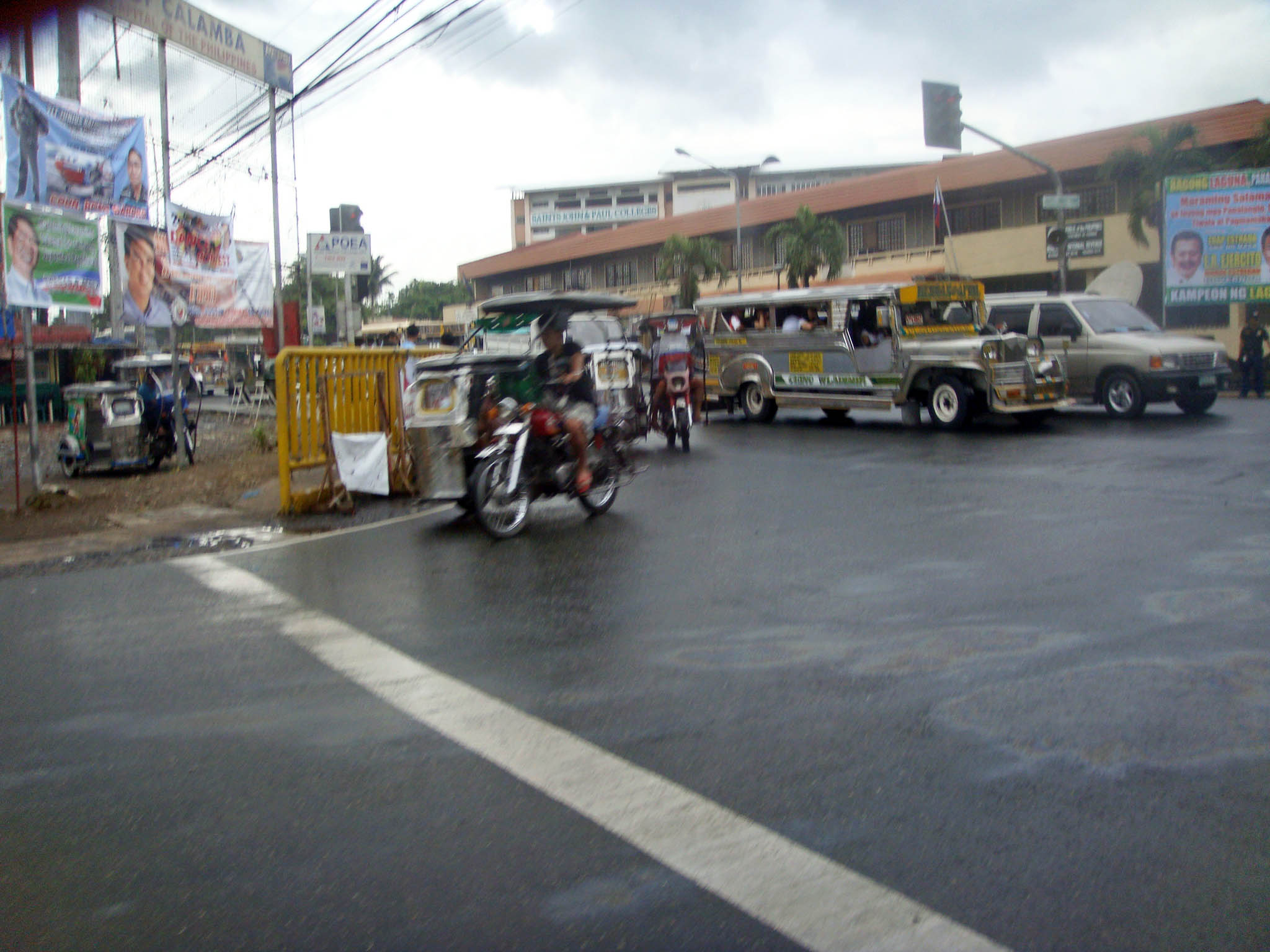 A typical day in the City of Calamba